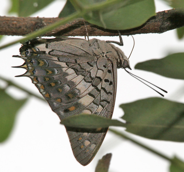 Black Rajah Charaxes solon in Hyderabad , India.